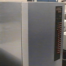 Intel iPSC/860 32-node parallel computer front panel shown while running a performance test with the Tachyon parallel ray tracing engine.